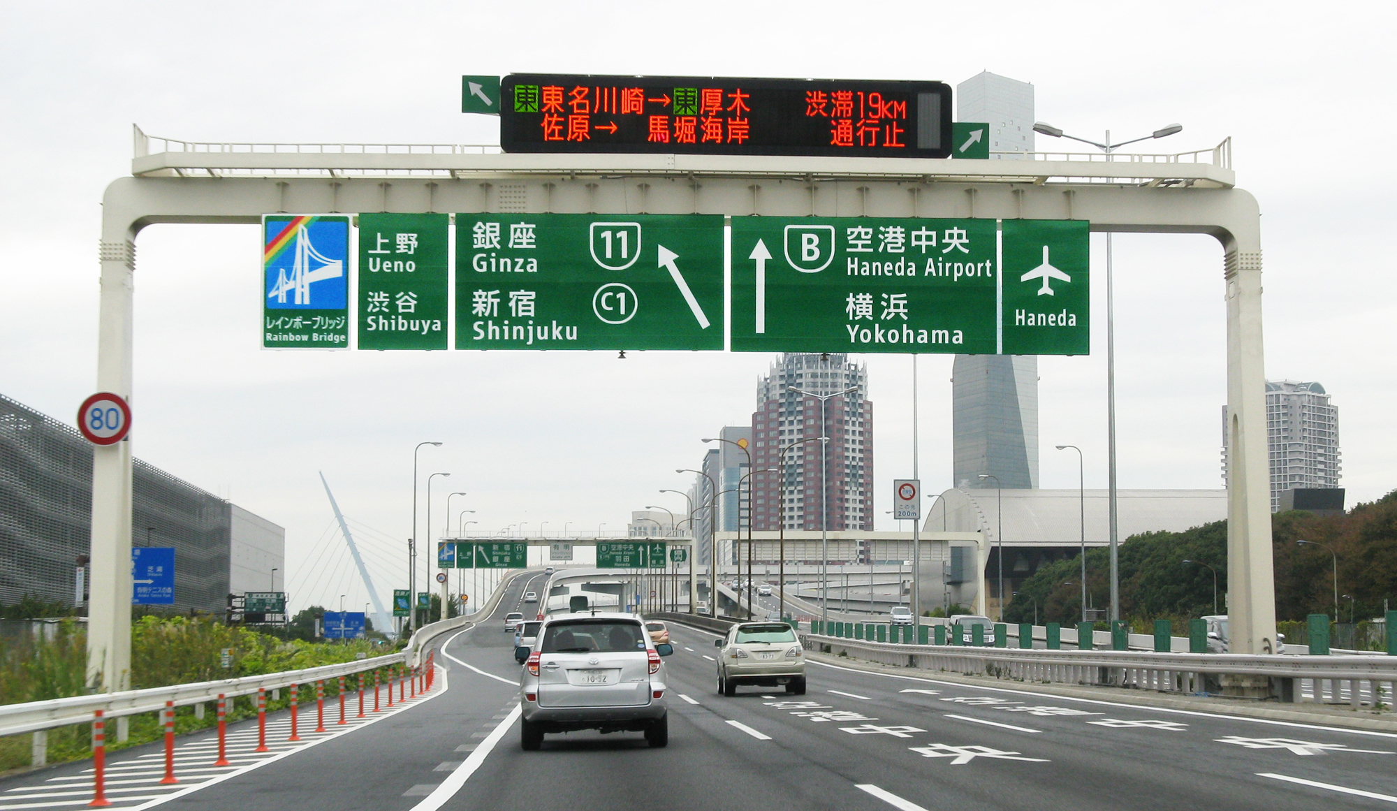 Ariake Junction on the Metropolitan Expressway